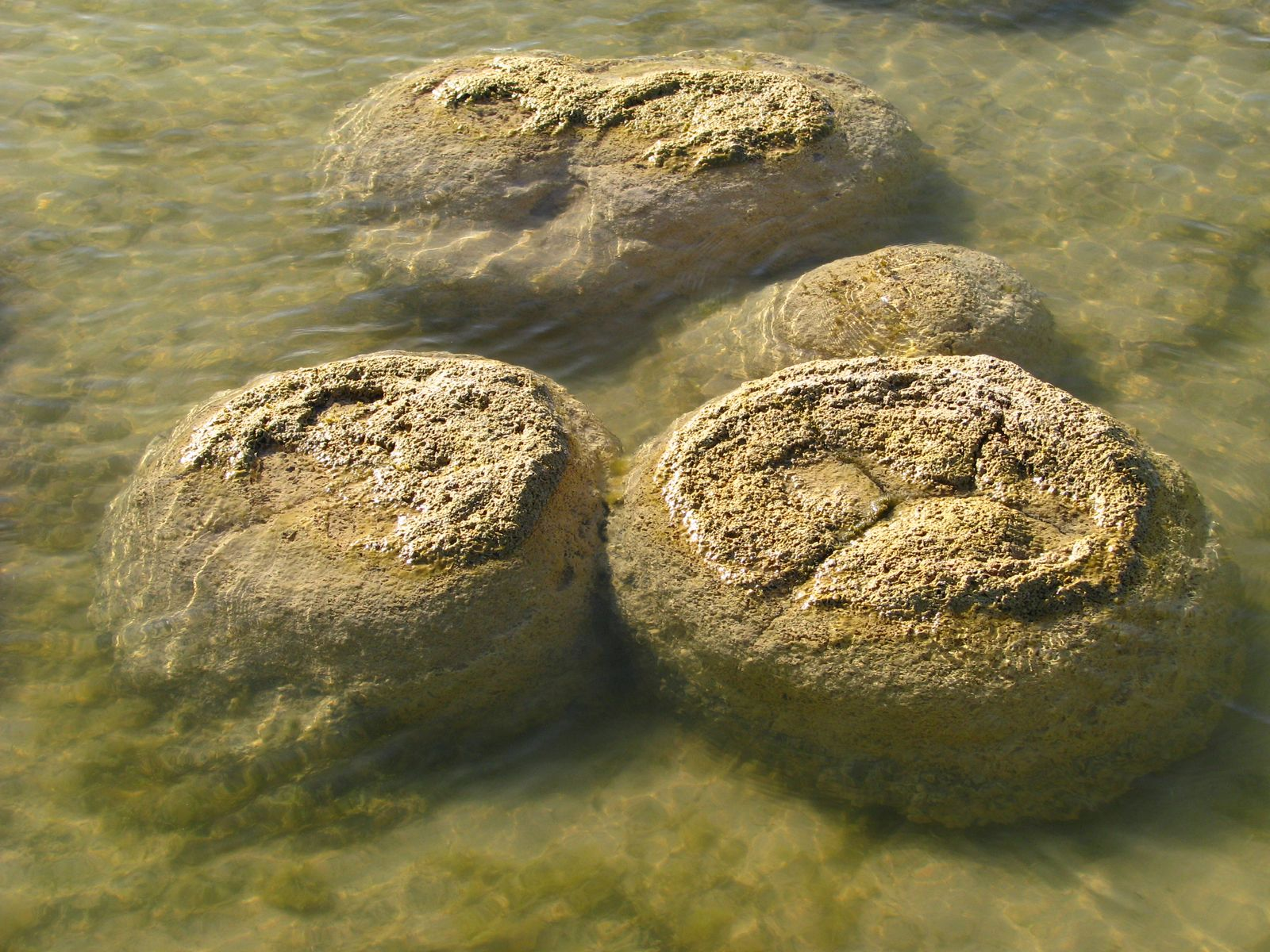 Thrombolites growing her in Yalgorup national park in Australia